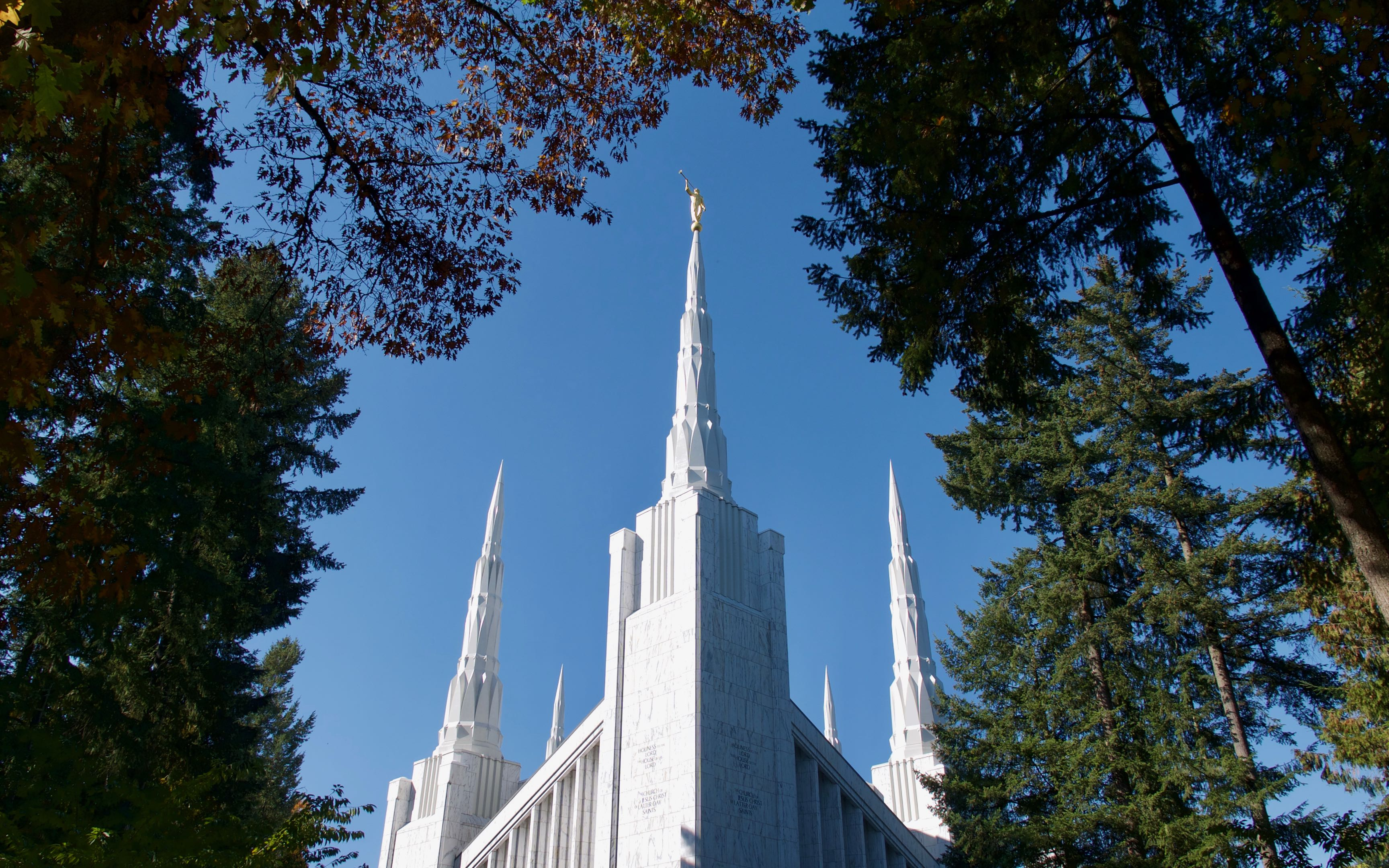 Portland Temple for the Church of Jesus Christ of Latter-day Saints. East side of temple, looking upwards at spires, fall time, framed by trees.